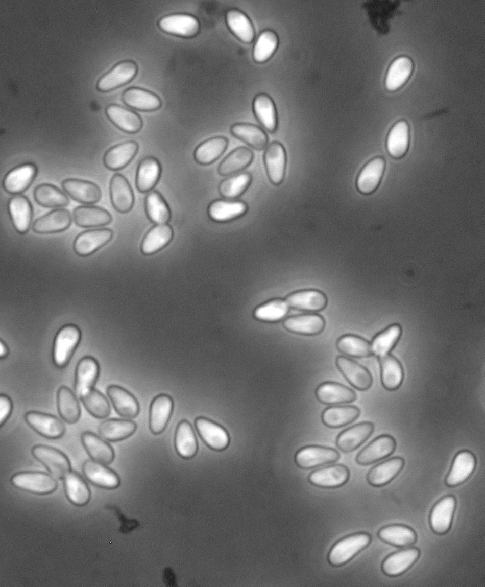 Spores of the microsporidium Hamiltosporidium magnivora as seen with phase-contrast microscopy. The spores are about 4 µm long. The host is Daphnia magna.